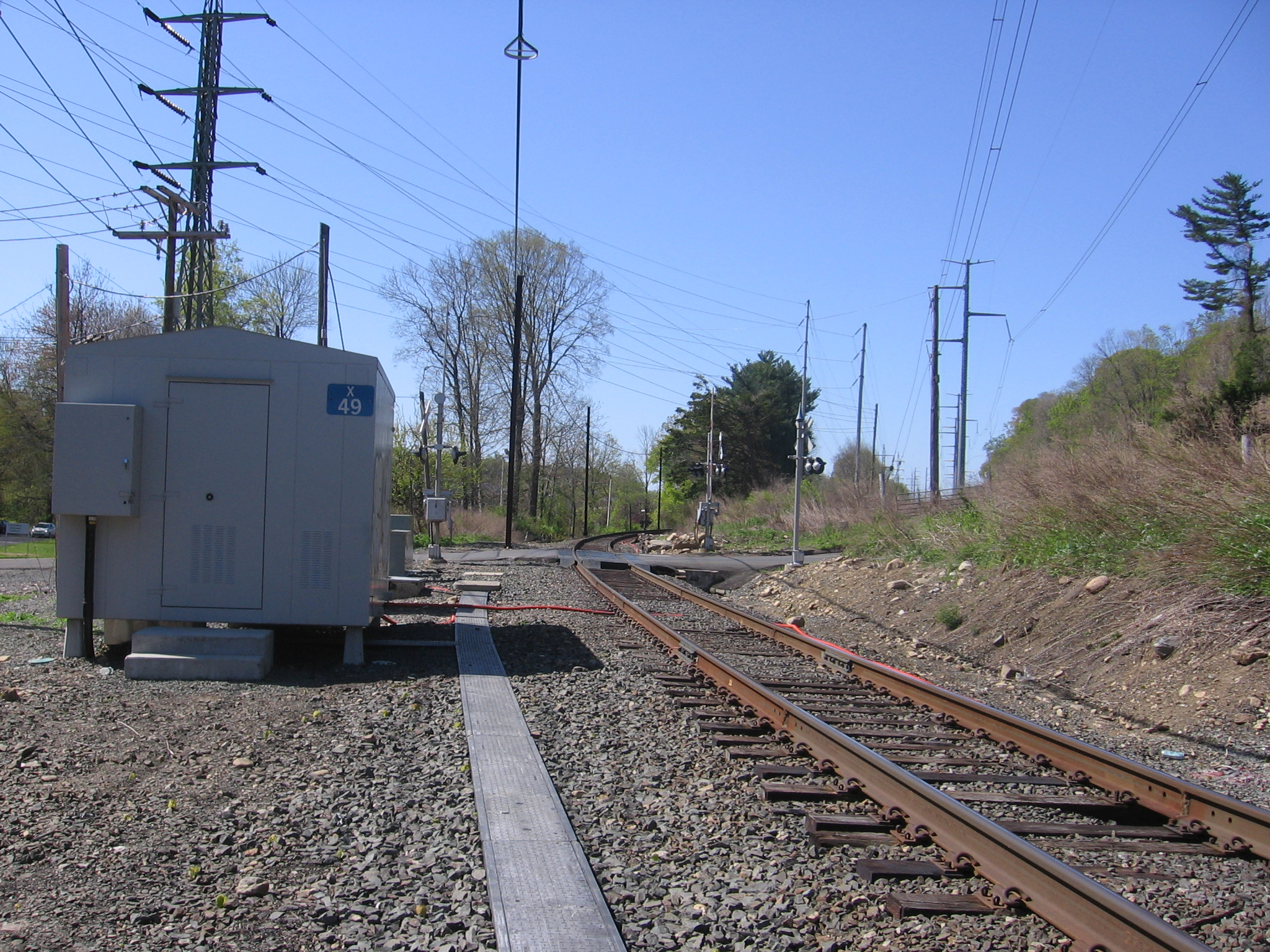 The site of the former South Wilton station along the Danbury and Norwalk Railroad in a view looking south with the Kent Road crossing visible. The Kent Road station site was past the crossing near where the pine trees are located. The fibreglass signal trays for the new signal upgrade project are visible beside the track.